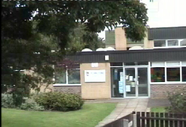 St. John Fisher School, Shenley Road